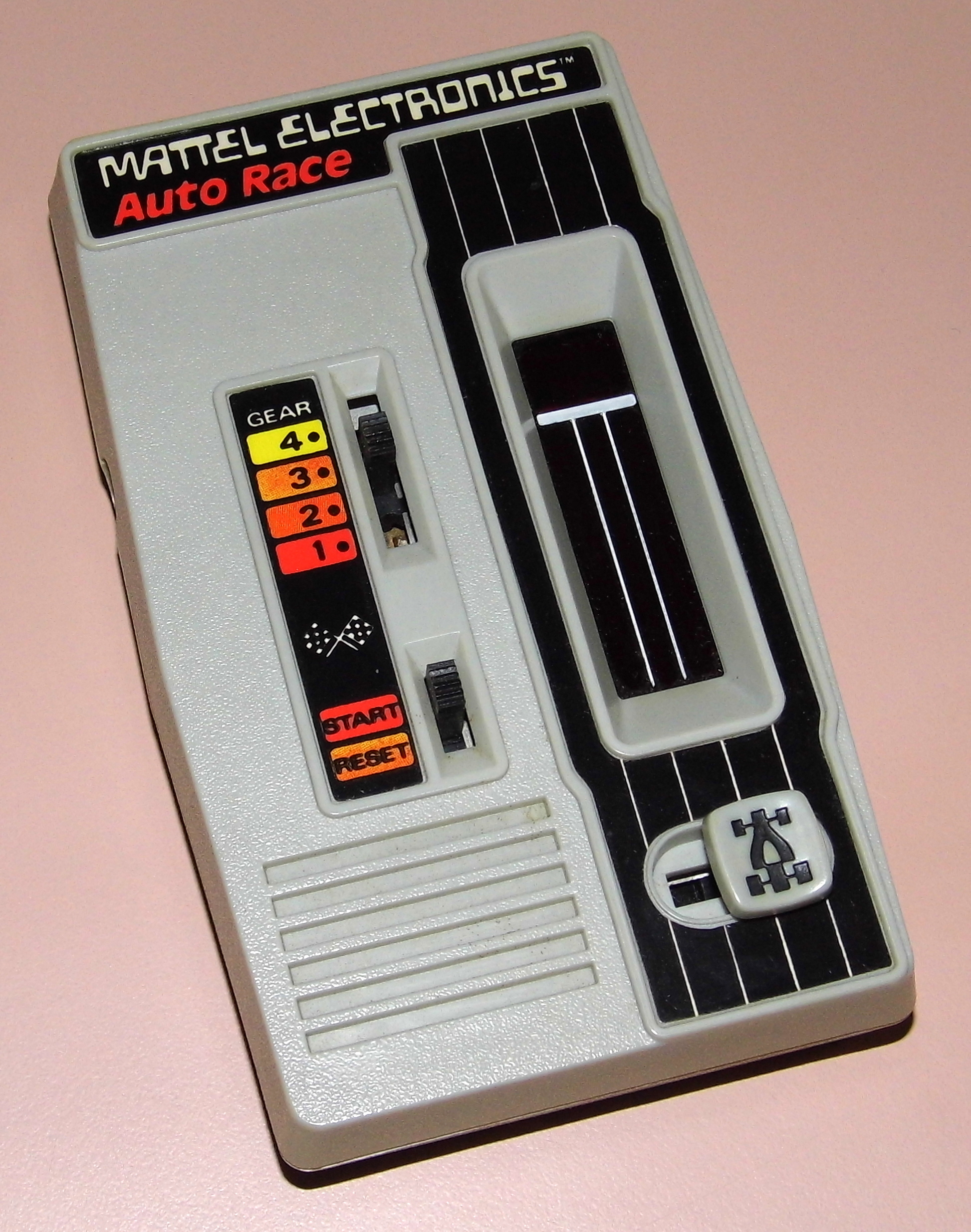 A good source of information on vintage handheld electronic games is the Electronic Handheld Game Museum .